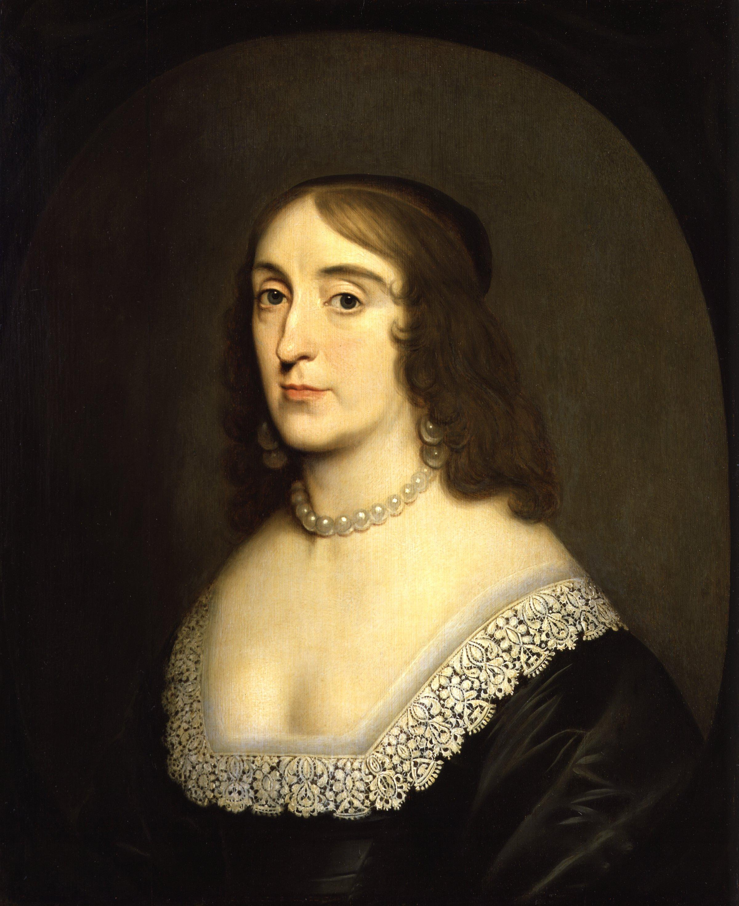 All images in this batch have been confirmed as author died before 1939 according to the official death date listed by the NPG.